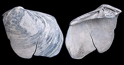 Mactra glauca; Eemian fossil marine bivalved shell from the North Sea.